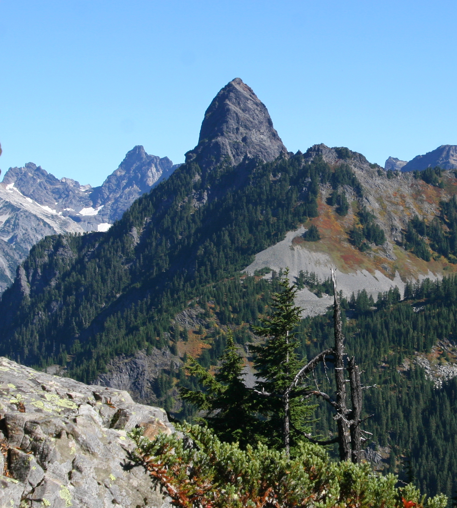 Mount Thomson from Red Mountain pass